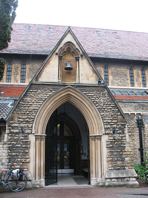 St Luke's church, Kew - south porch. This is the main entry to both church and community centre. For a brief history see 1526467.